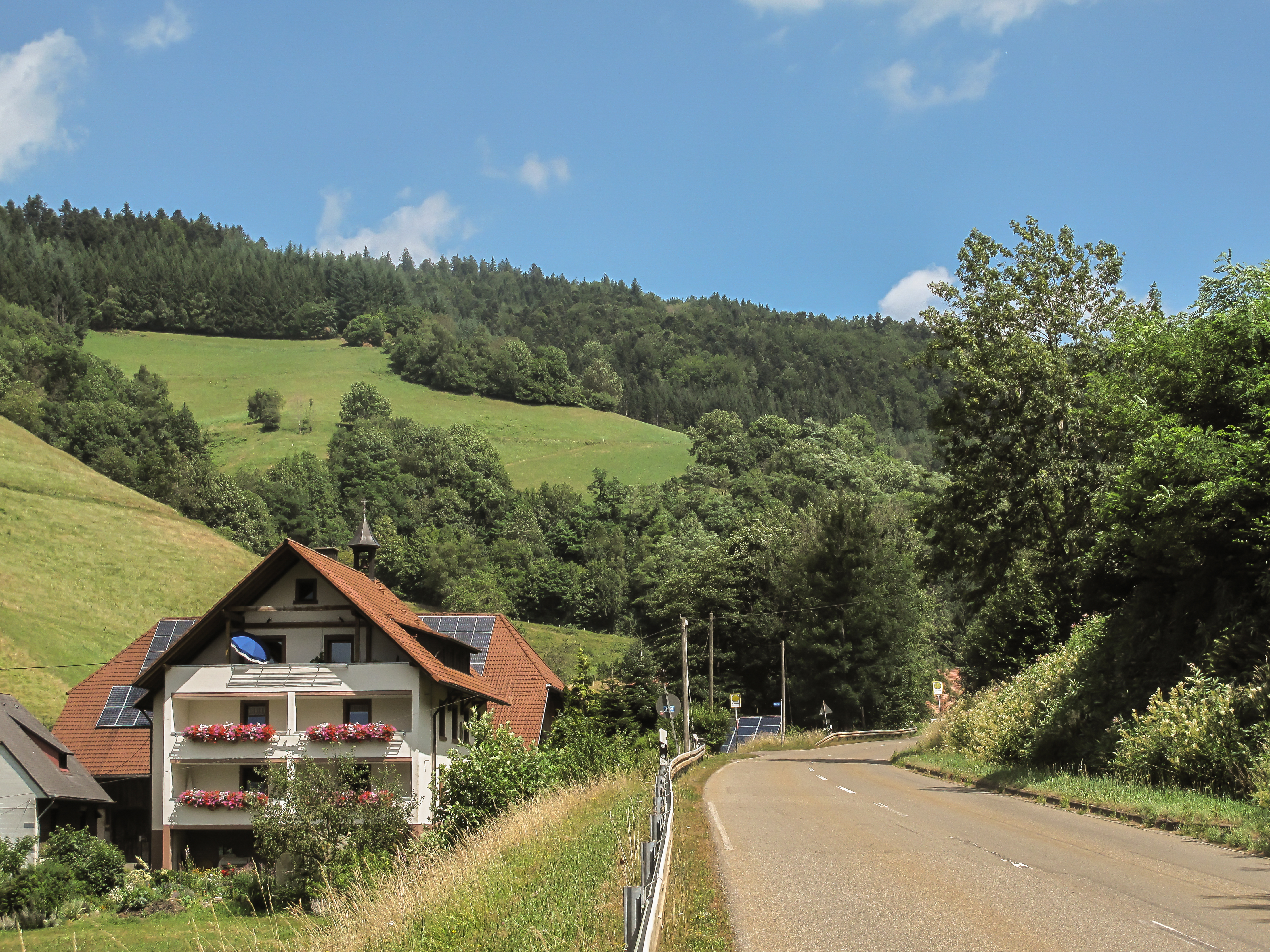 between Eschbach and Sankt Peter, road panorama